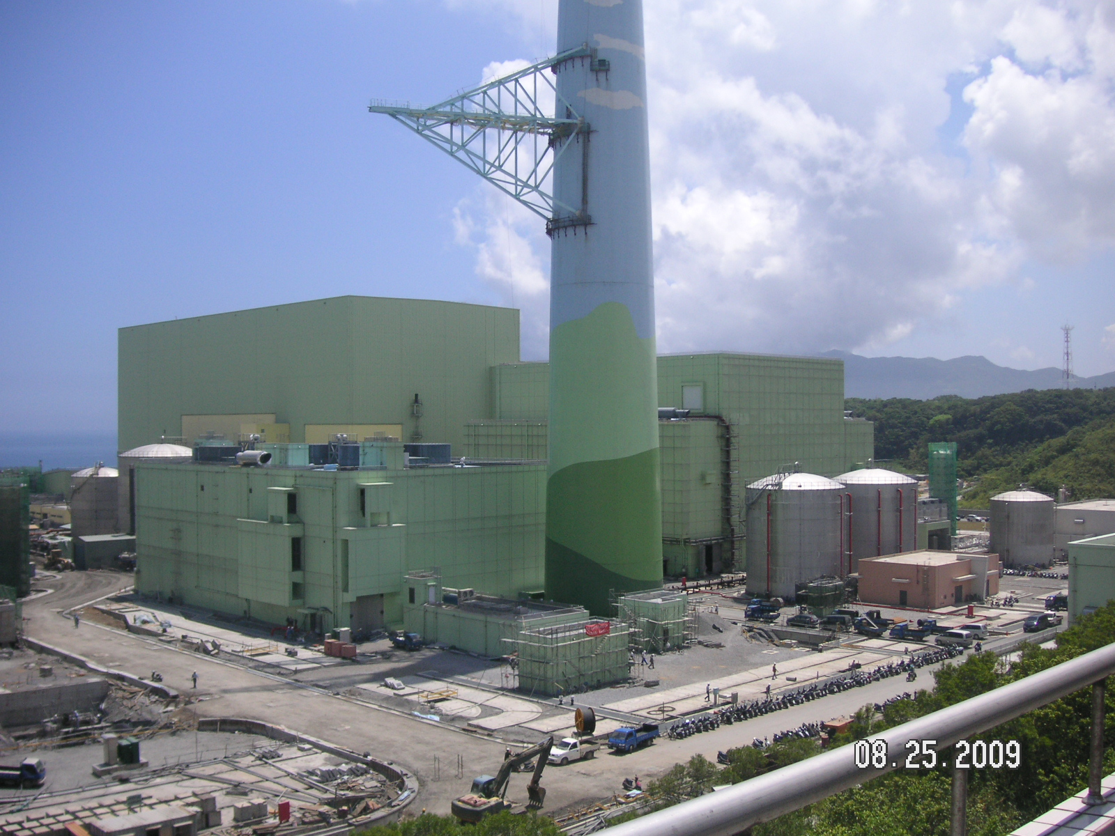 Photo of the building of the Lungmen ABWR plant in Taiwan